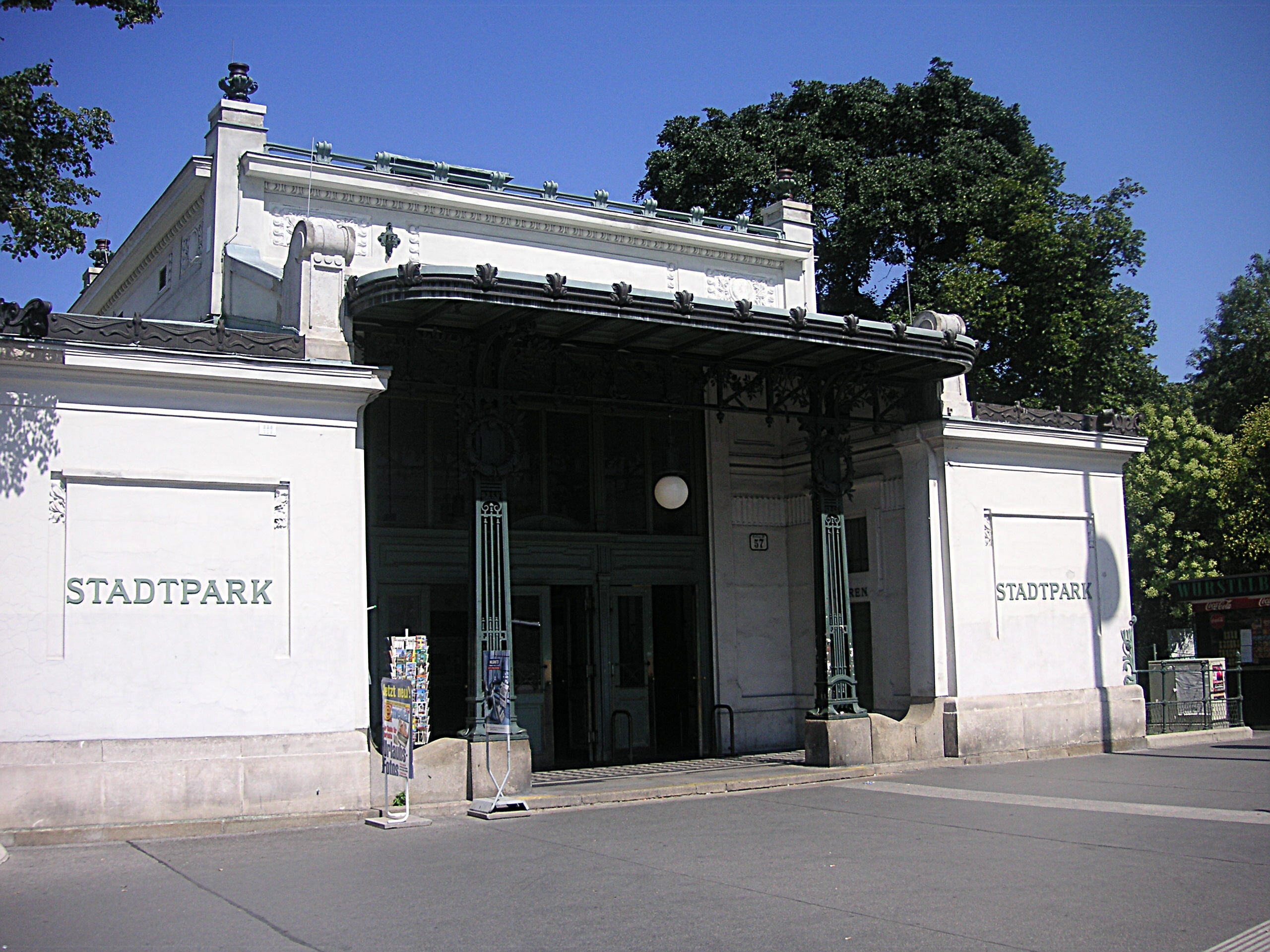 The U-Bahn station Stadtpark in Vienna, Austria, situated next to the Wiener Konzerthaus. As many others, this station building was designed by Otto Wagner.